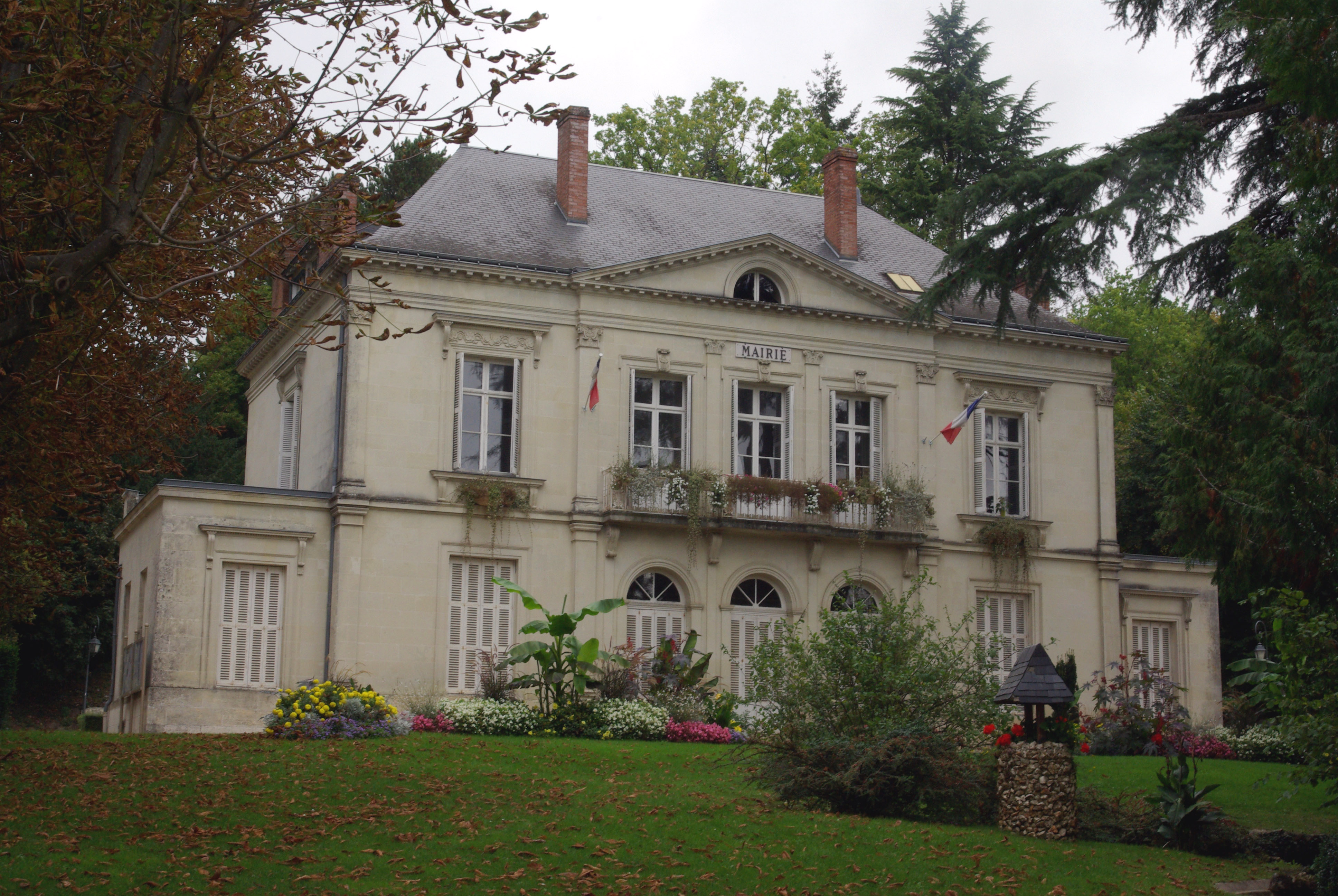 City Hall of Cinq-Mars-la-Pile